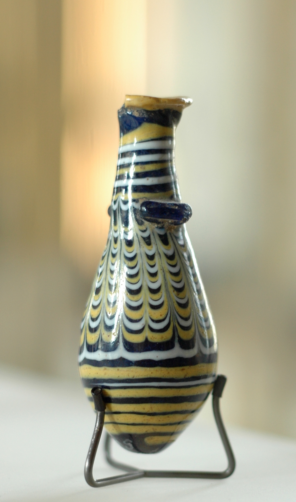 Roman alabastron with sgraffito decoration.